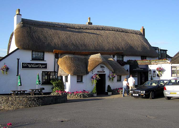 A thatched pub, the Williams Arms at Wrafton, near Braunton, North Devon, England. Taken by Adrian Pingstone in July 2004 and released to the public domain.